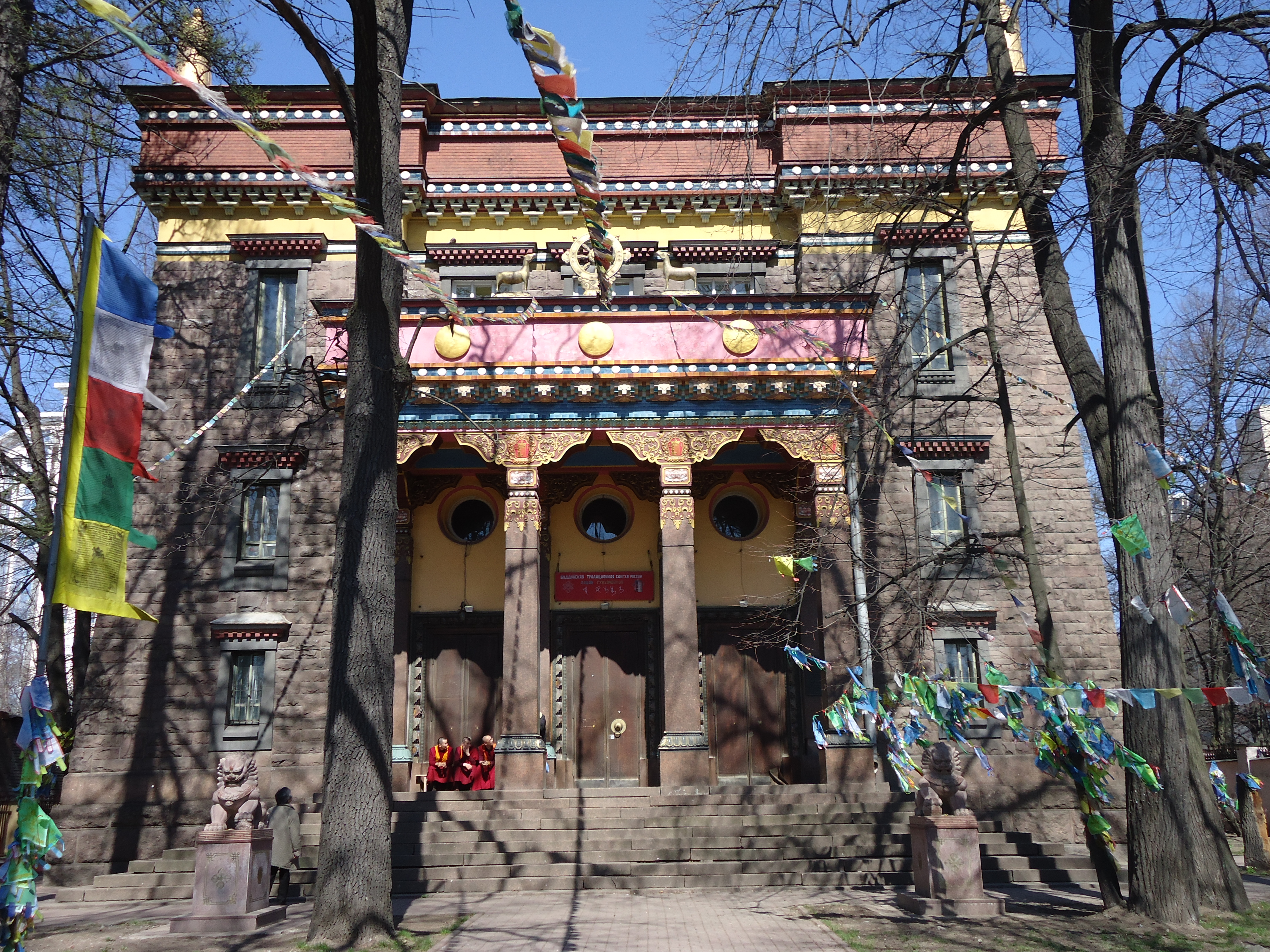 Buddist temple of Saint Petersburg.